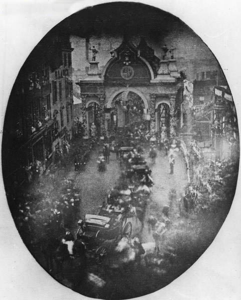 Queen Victoria passing over Victoria Bridge in Manchester, 1851. Triumphal arch visible.